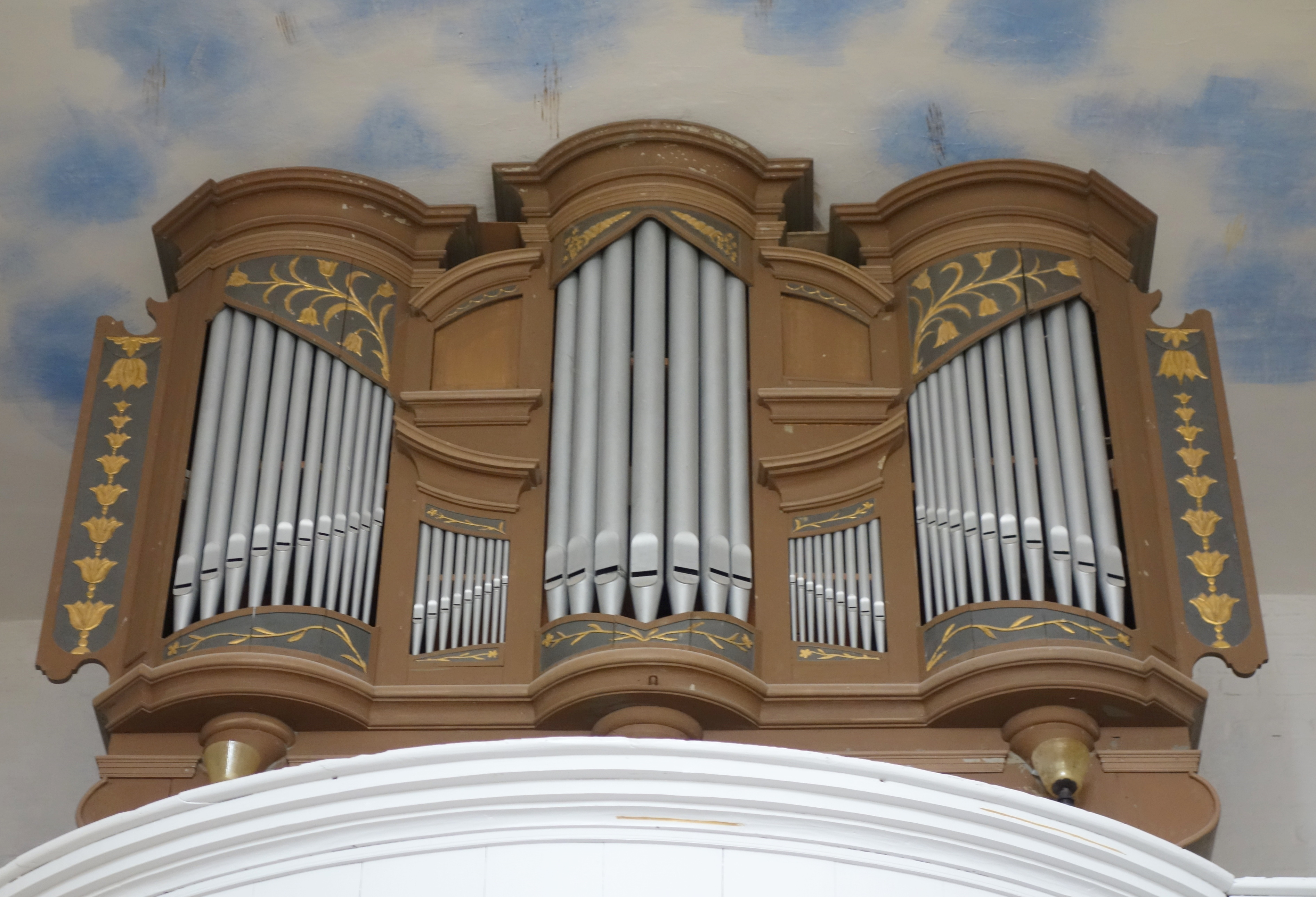 St. Marien Groß Salitz, Mecklenburg-Vorpommern, Deutschland